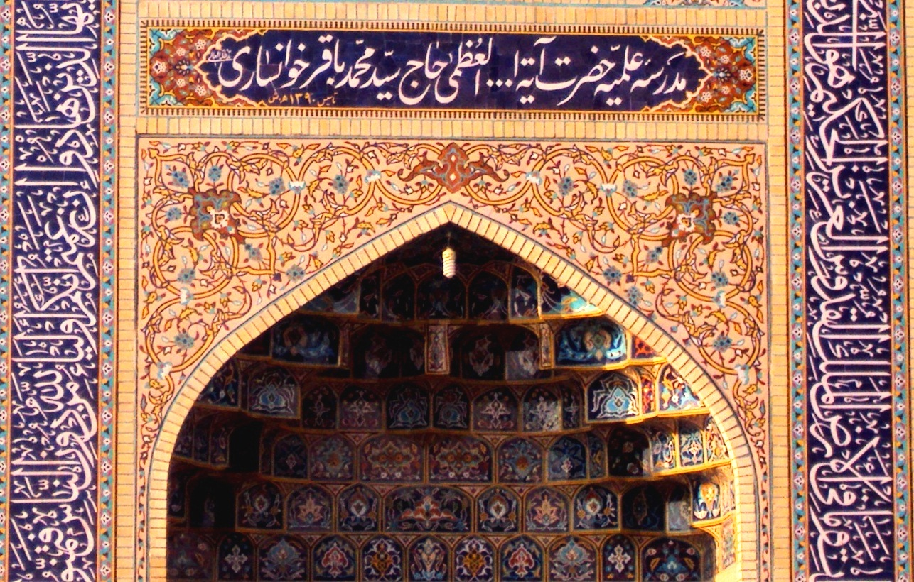 Mohammad Bagher Khorasani Seminary, Qom